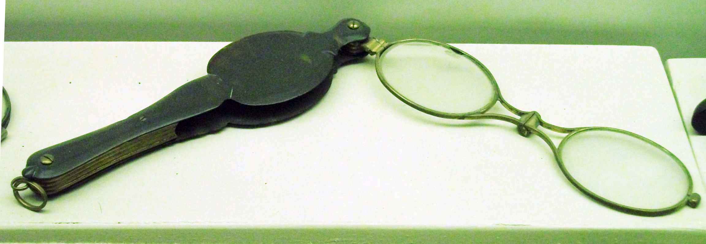 Lorgnette, Bedford Museum, Bedford. Photo Cropped and color adjusted.